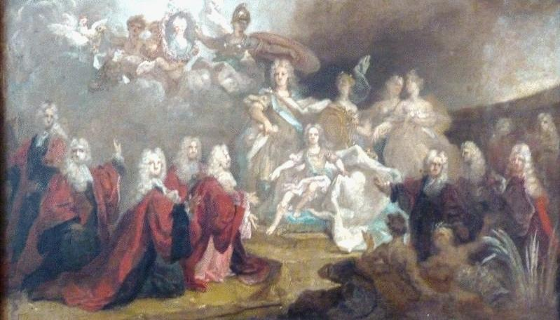 Allegory of the engagement of Louis XV and the Infanta Mariana Victoria of Spain in 1722.